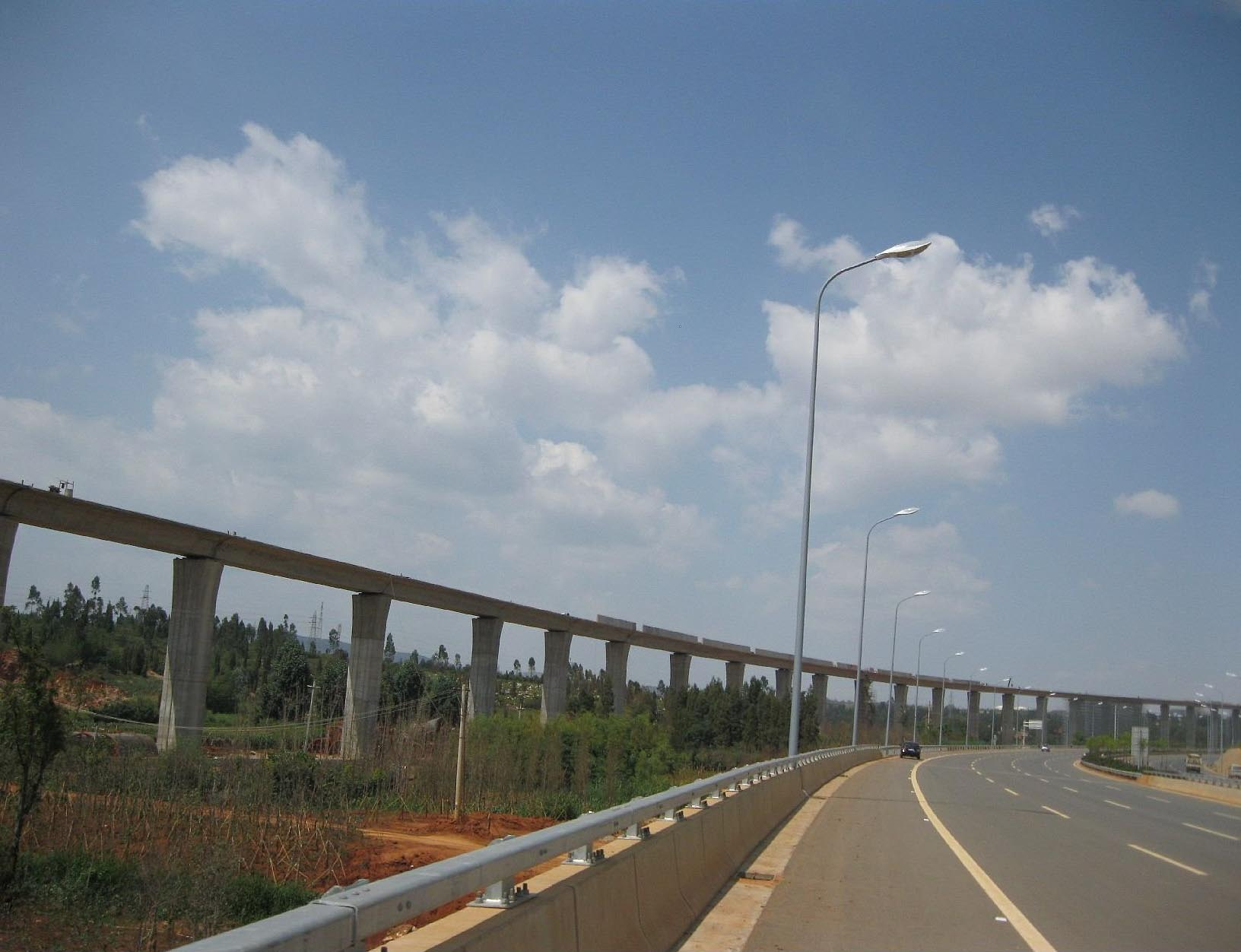 The L6 of Kunming Metro(Under Construction)